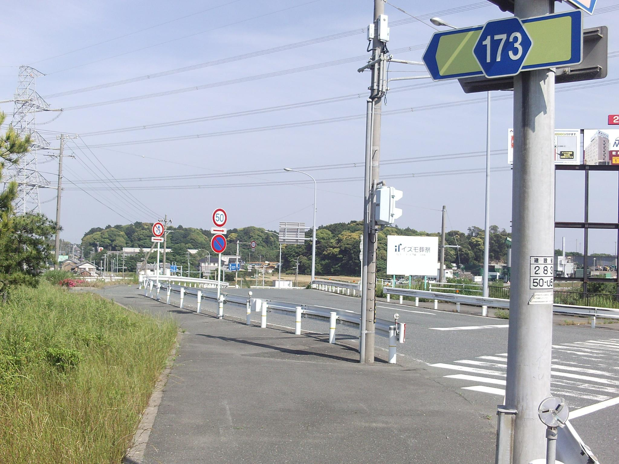 Aichi prefectural road No.173 in Higashihosoyacho, Toyohashi, Aichi.